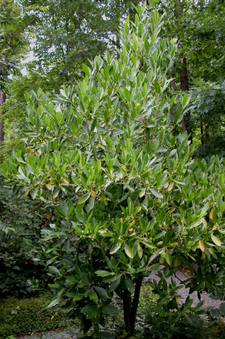 Illicium parviflorum/yellow anise